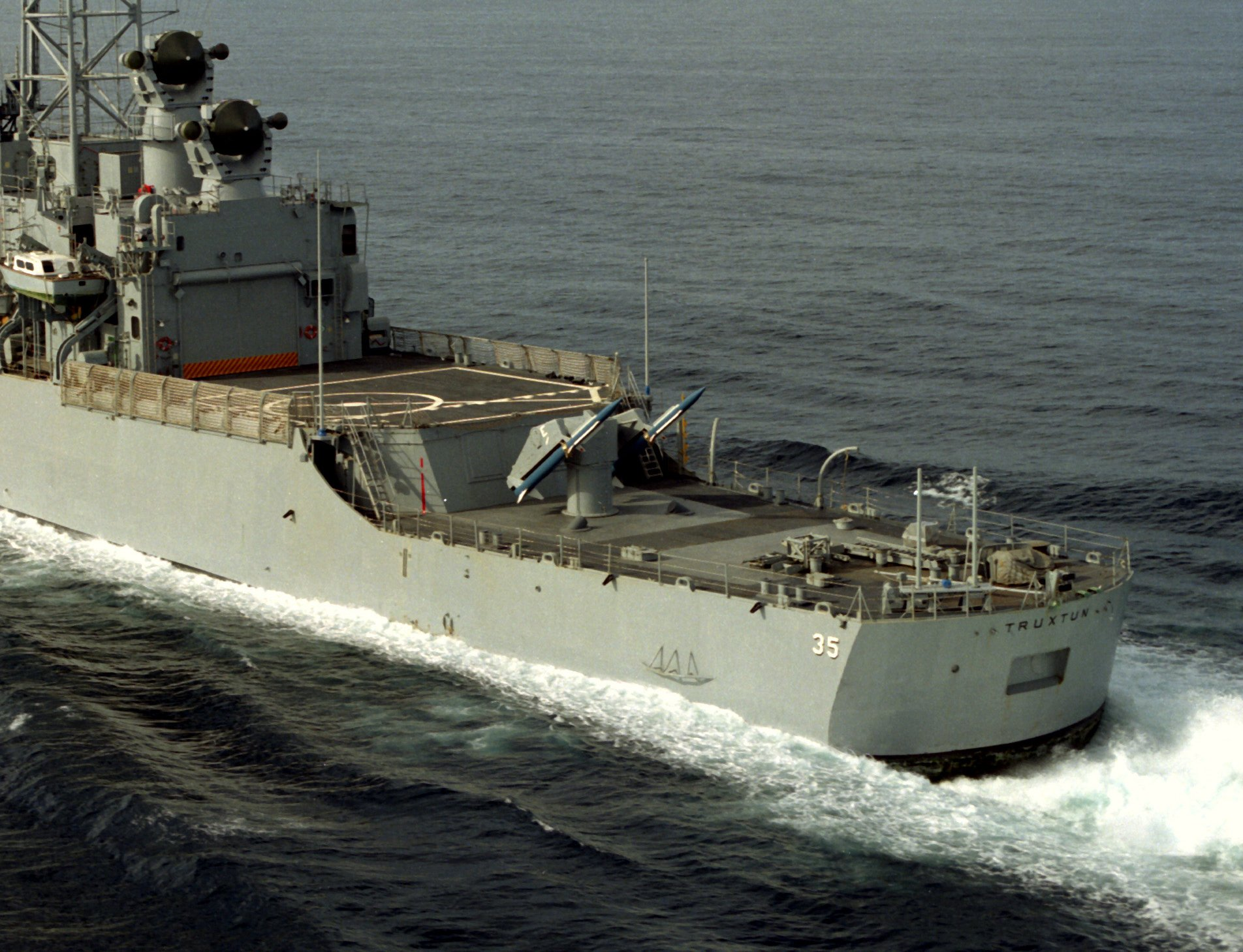 View of the twin Mark 10 Model 8 missile launcher aboard the U.S. Navy guided missile cruiser USS Truxtun (CGN-35), while she was underway off San Diego (USA) on 3 January 1989.